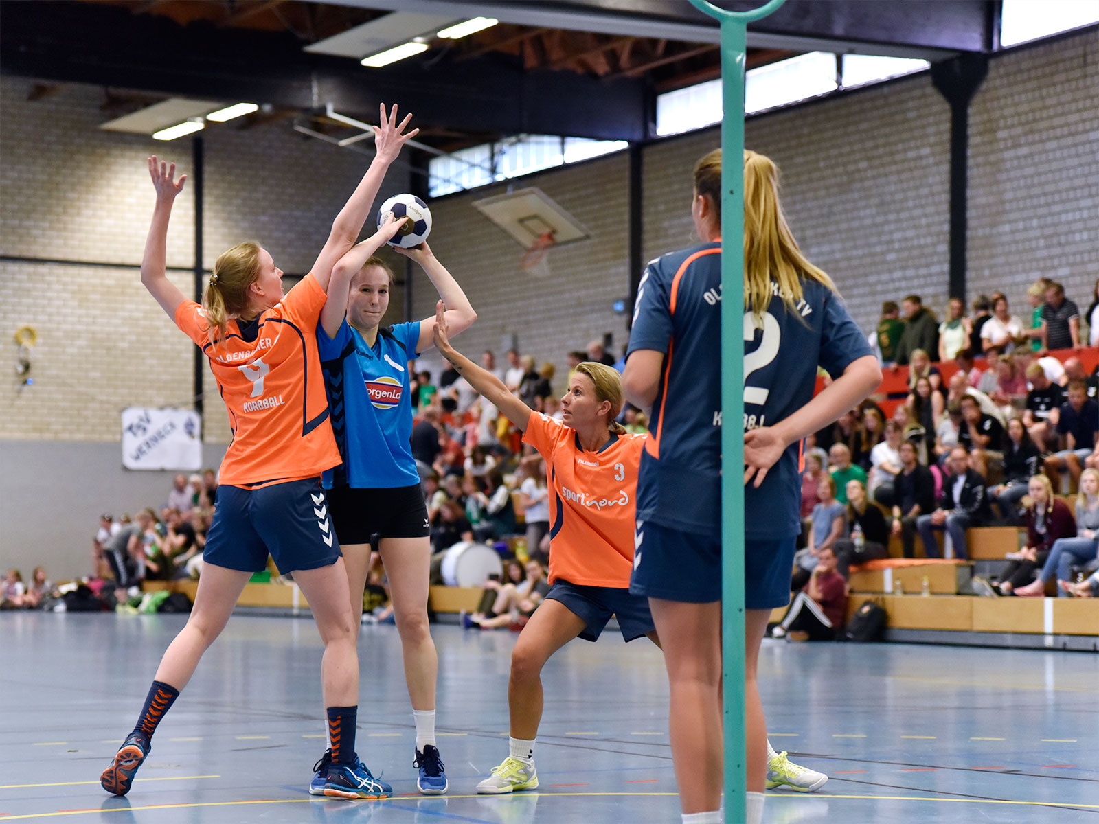 TSV Thedinghausen’s goalkeeper Agnetha Rippe under pressure from Oldenbroker TV’s Julia Kikker (left) and Janina Knutzen in the game for 5th place at the 50th German Indoor Korbball Championships in Oerlinghausen.